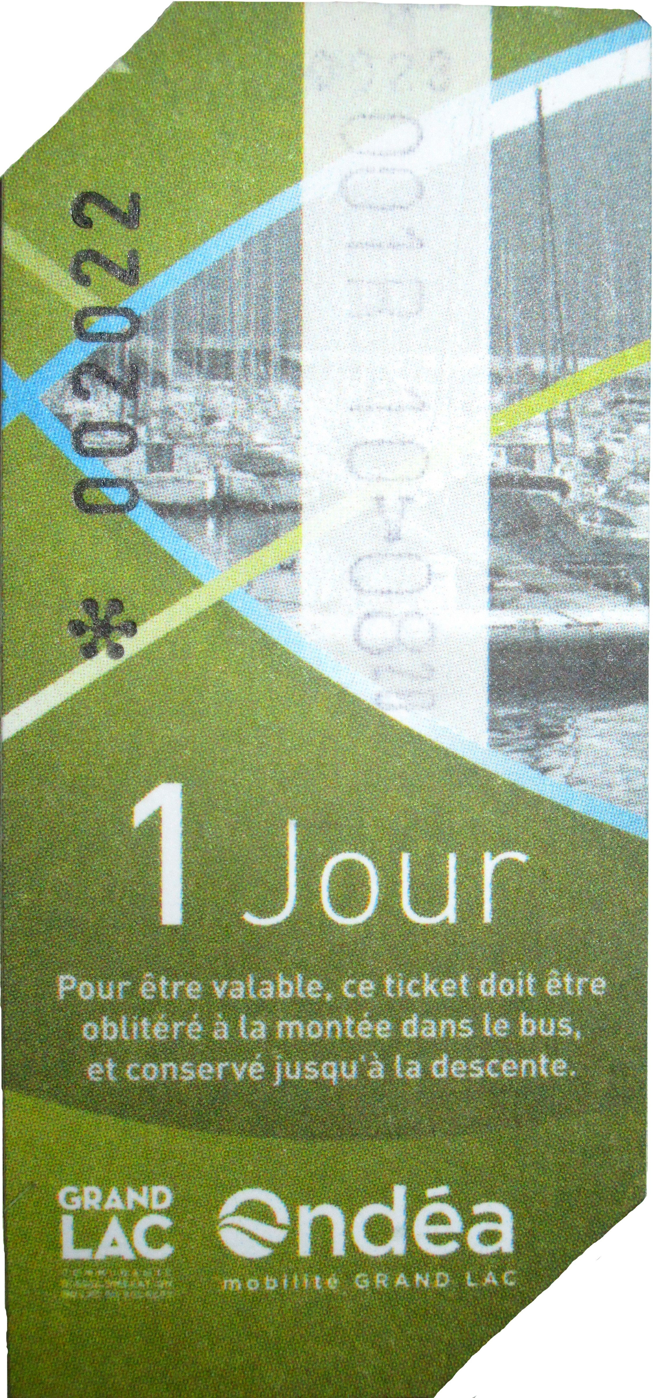 A ticket 1 Jour (1 day) of the bus network Ondéa (Aix-les-Bains).